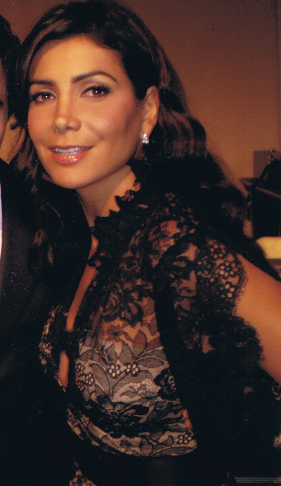 Mexican Singer Patricia Manterola at Miami Fashion Week